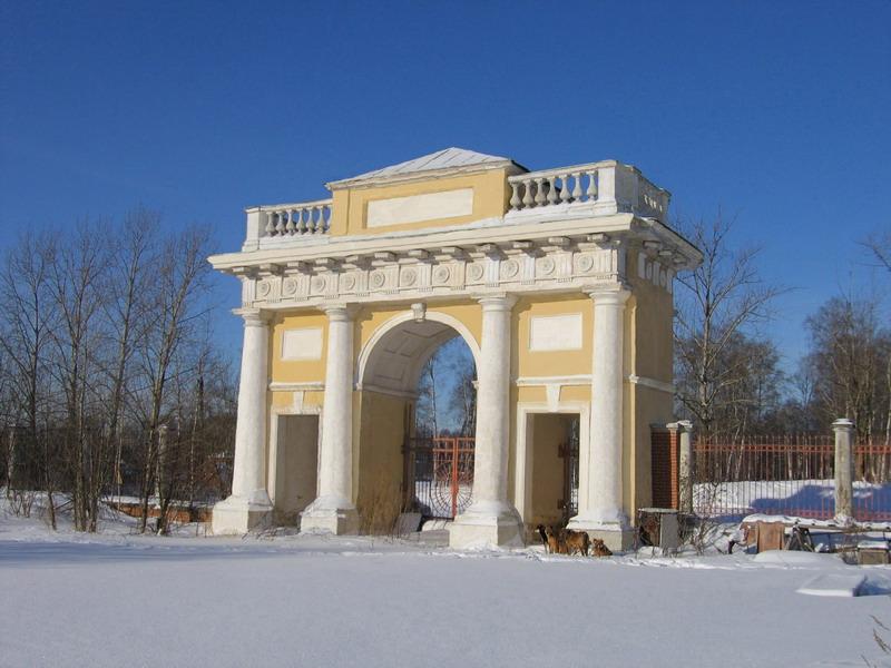 Entrance to the Grebnevo estate.